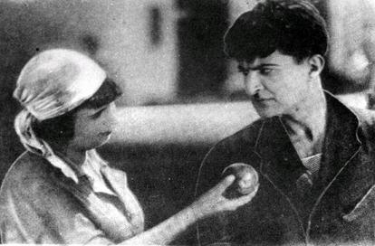 Cadre from "The game of love" film